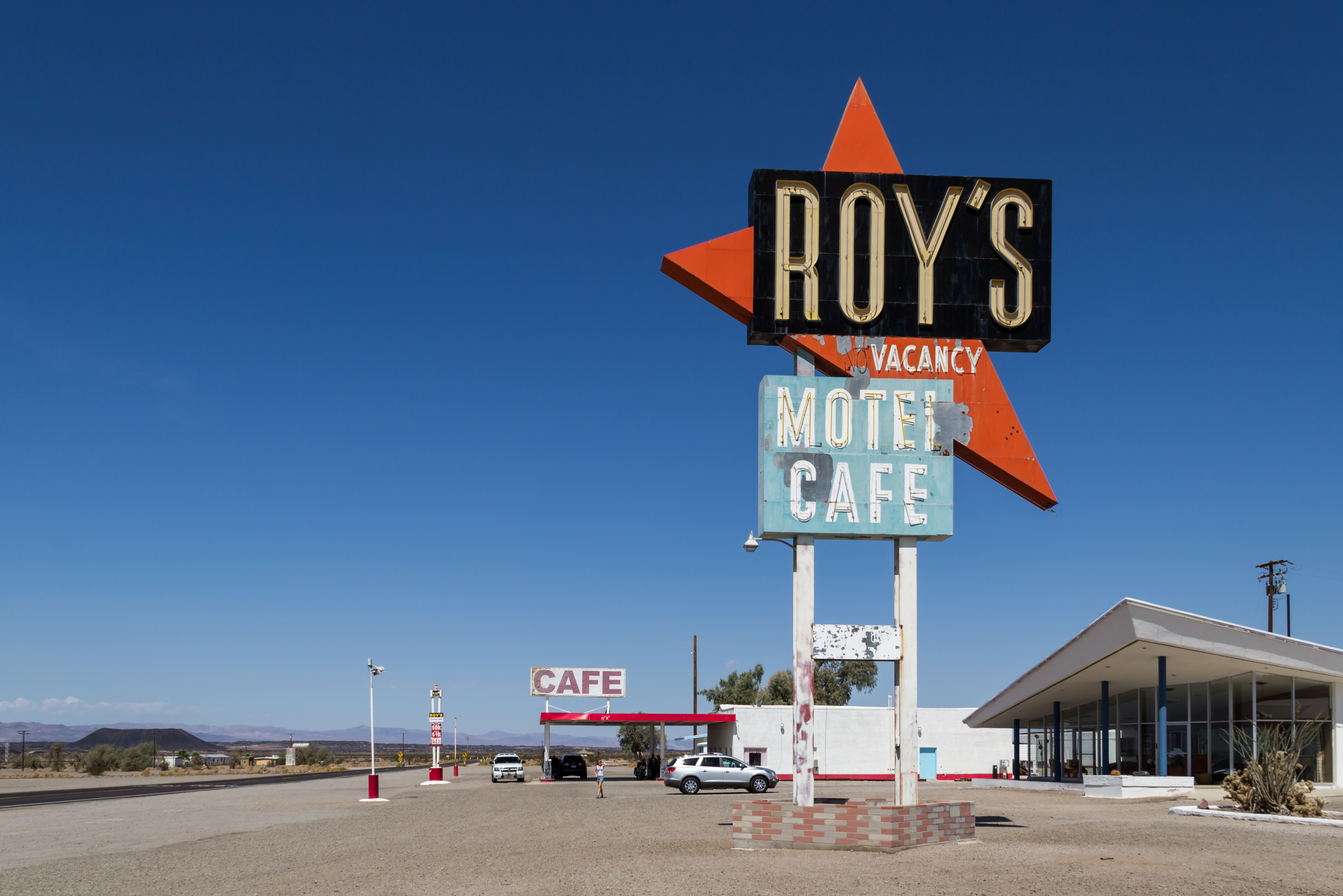 Roy's Cafe & Motel, Amboy (California, USA); on the left the Historic Route 66 to Los Angeles